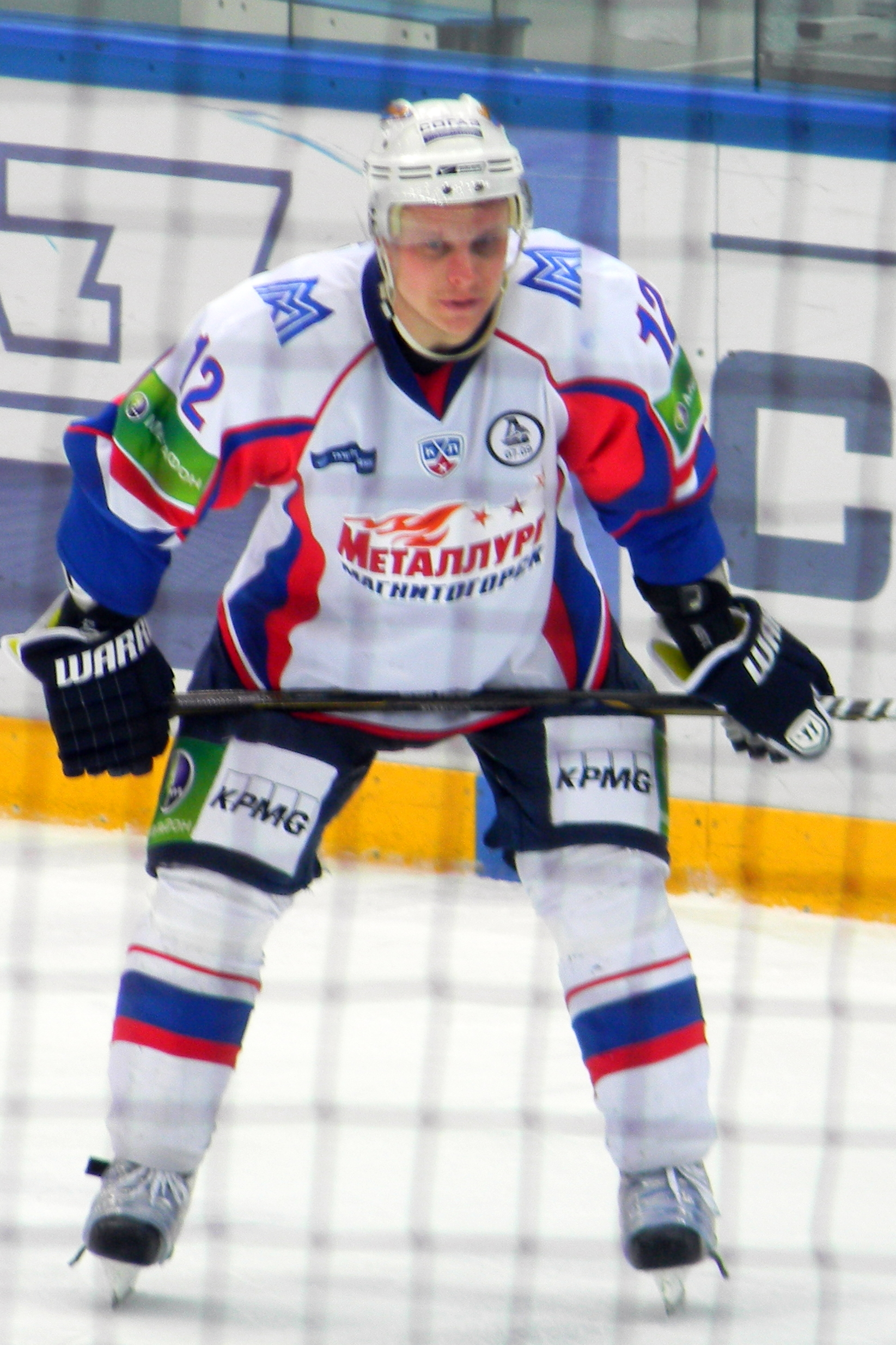 Lasse Kukkonen, an ice-hockey player from Metallurg Magnitogorsk in the game against Torpedo Nizhny Novgorod on 16th December, 2012